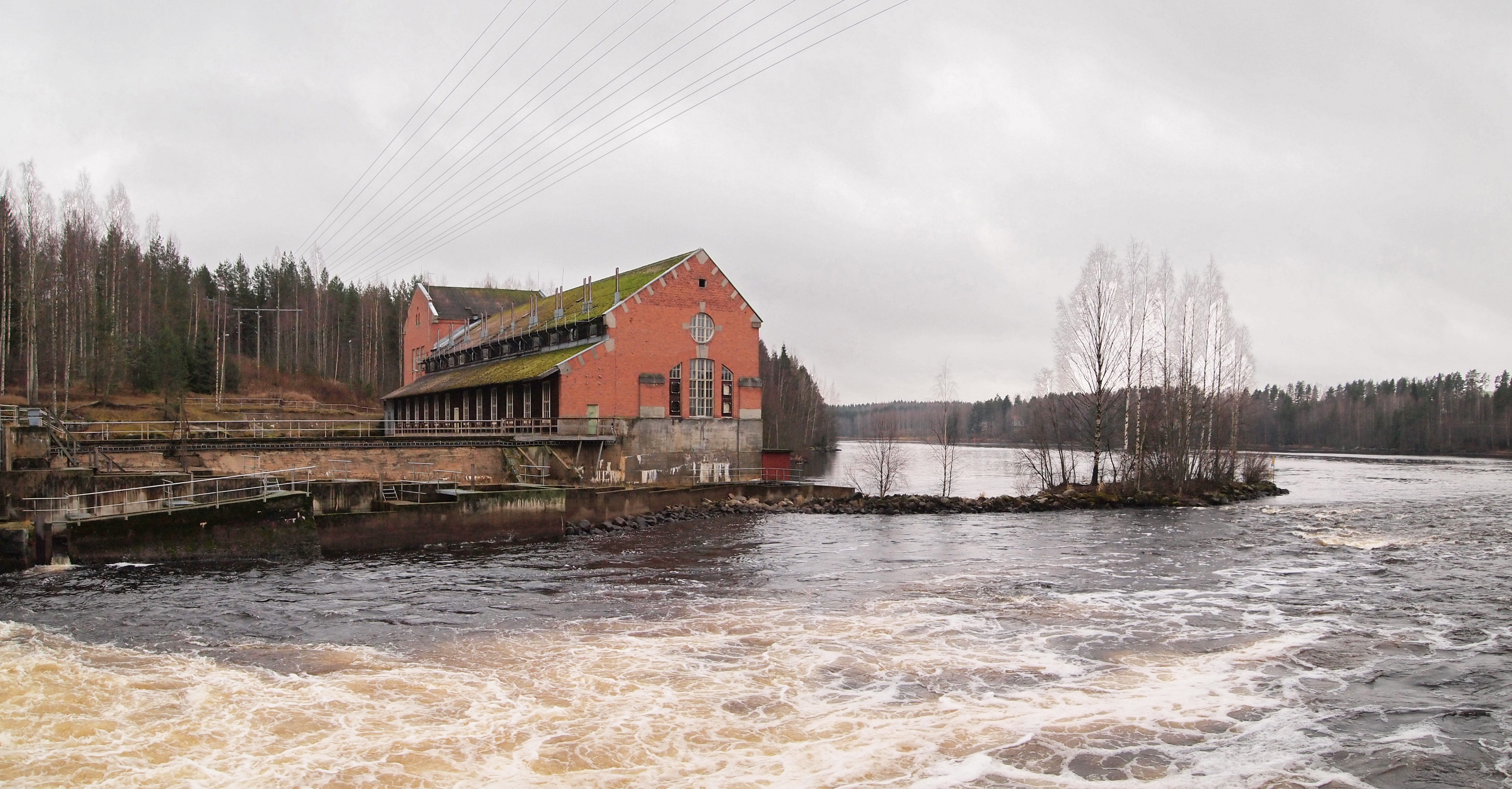 Kuhankoski power plant, Laukaa.